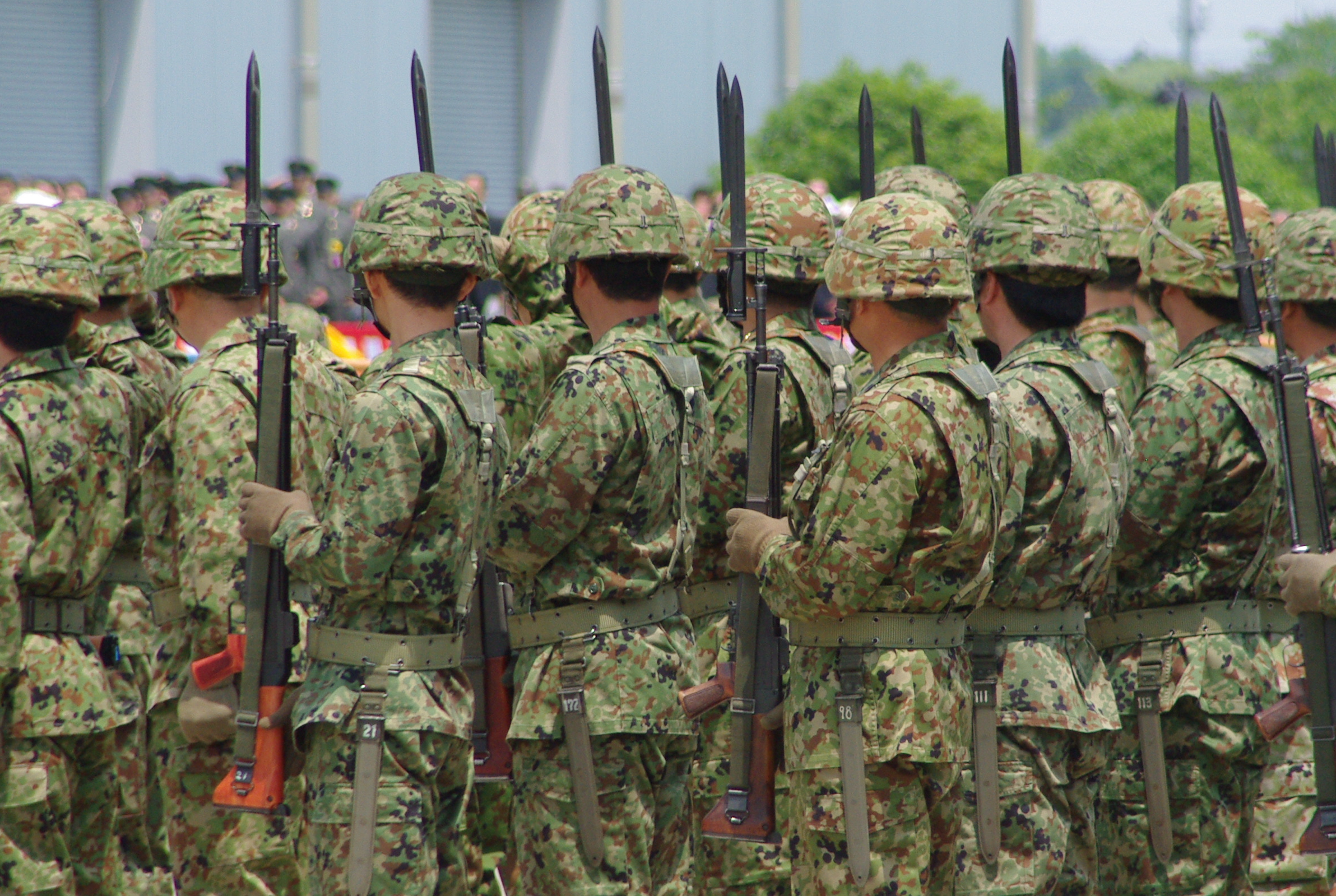 JGSDF Type 64 Rifle,JGSDF Kantou Logistics Depot.Taken by Los688,in Camp Kasumigaura,Japan,at 20-May-2012.PD-self 陸上自衛隊 64式小銃。2012年05月20日、霞ヶ浦駐屯地・関東補給処で撮影。